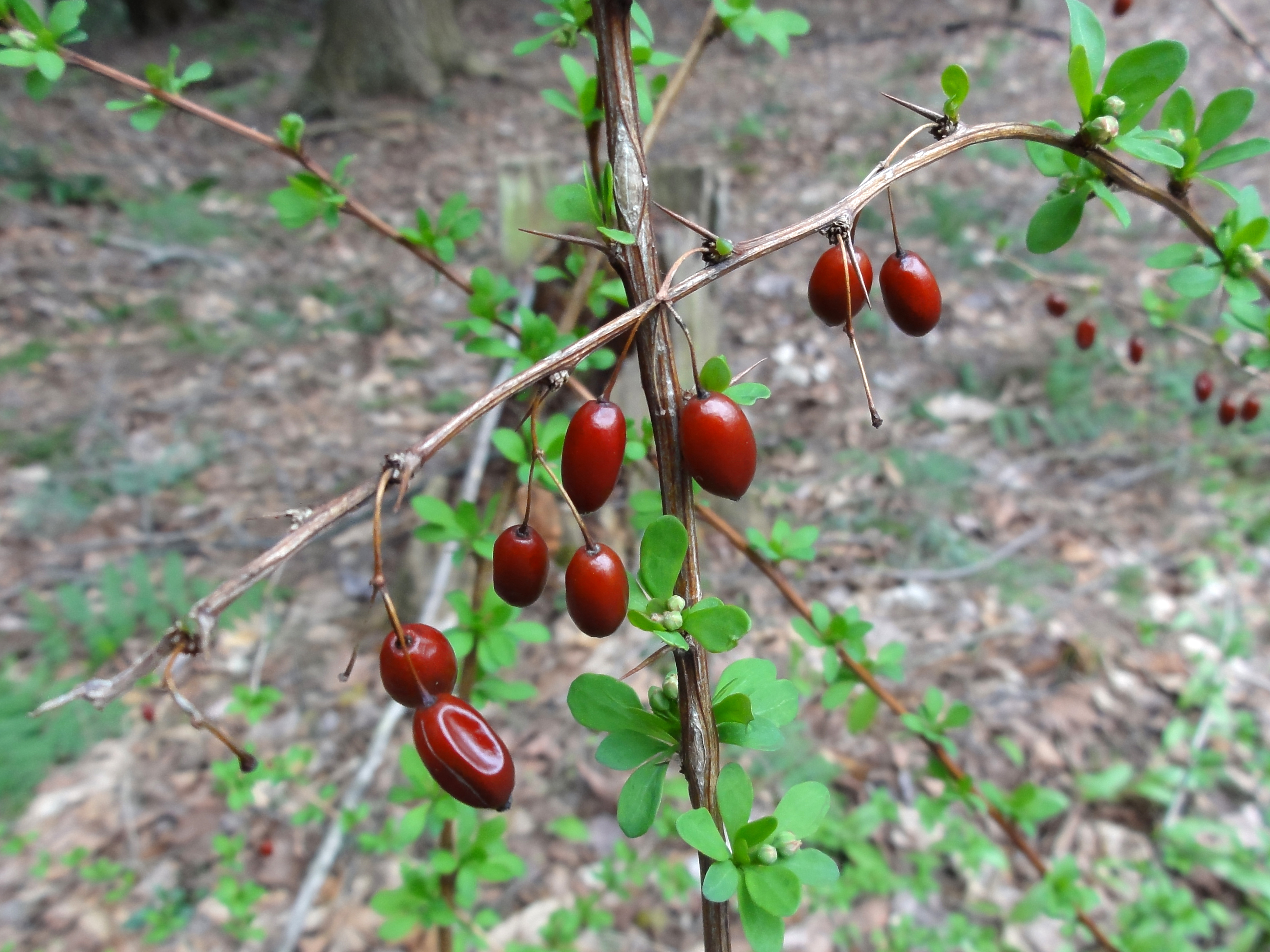 Berberis thunbergii - Japanese barberry - at the Skaneateles Conservation Area, Onondaga County, New York